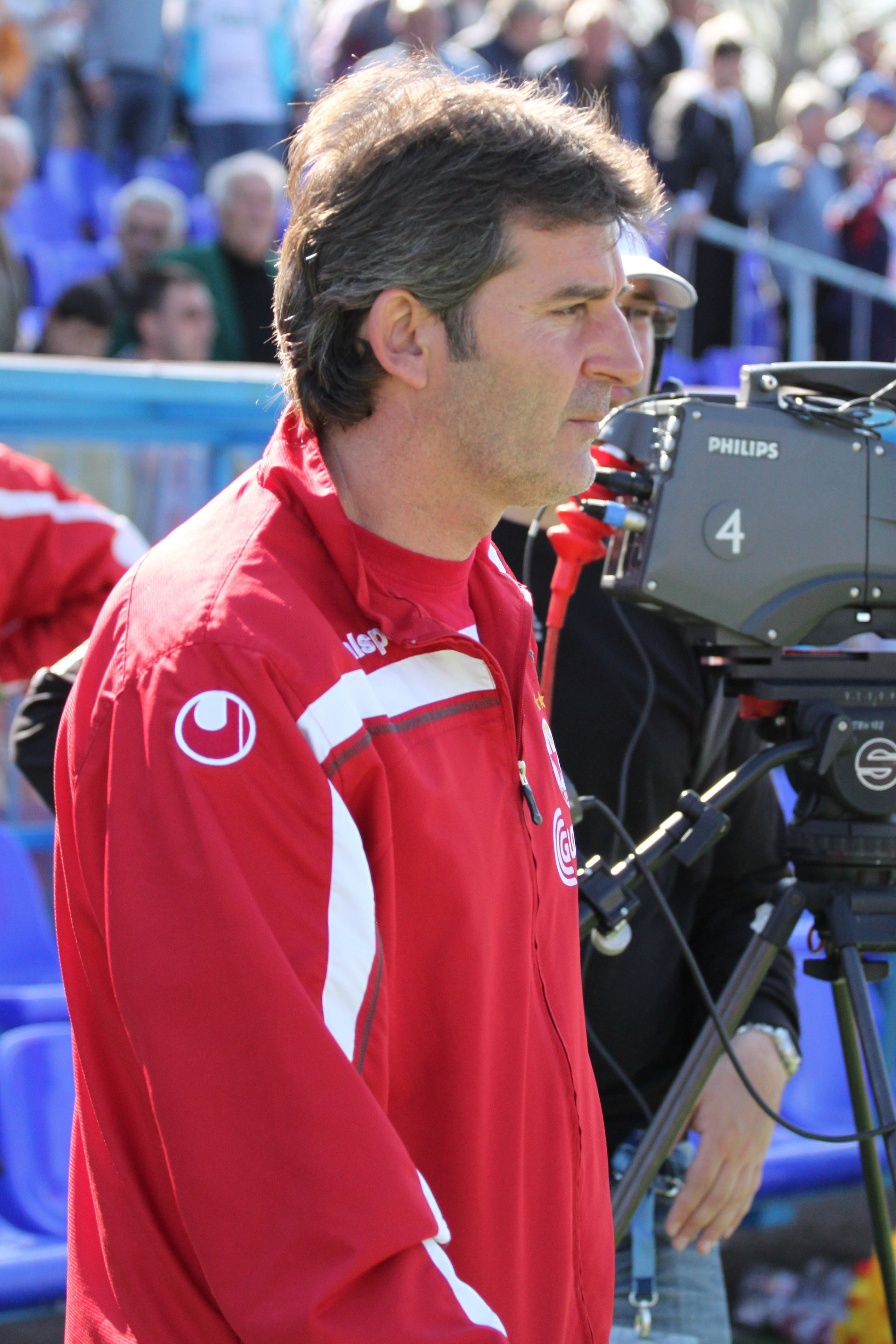 Emil Kostadinov (Bulgarian: Емил Костадинов) (born August 12, 1967 in Sofia) is a former Bulgarian football striker